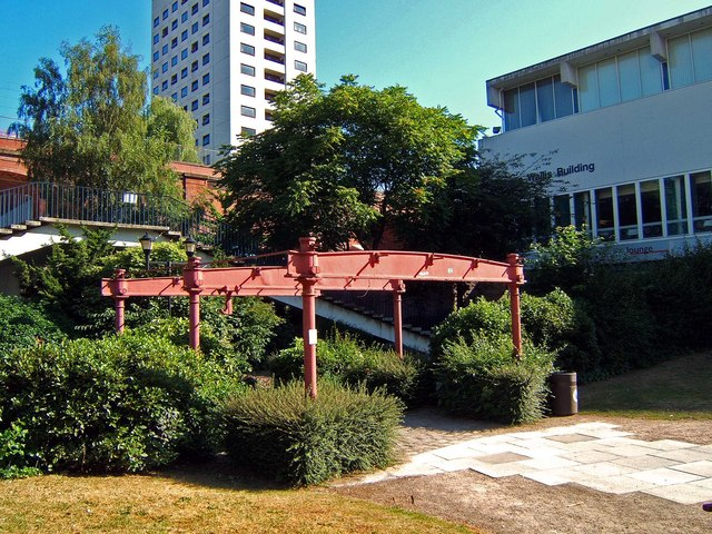 Remains of Havelock Mill The red structure is the remains of Manchester’s Havelock Cotton Mill the cast iron construction marks the transition from craft design to engineering designs based on calculation. It is preserved in the grounds of the University of Manchester on the former Institute of Science & Technology campus. The building in the background on the right is the Barnes Wallis building named after the inventor of variable geometry (swing wing) aircraft and the "Bouncing Bomb" who studied here as did the designer of the Lancaster Bomber Roy Chadwick.